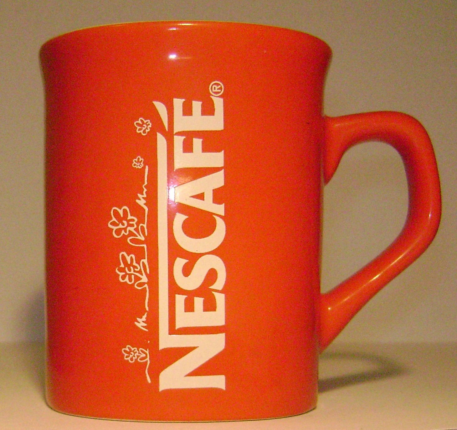 Cup, Nescafé - "Spring"